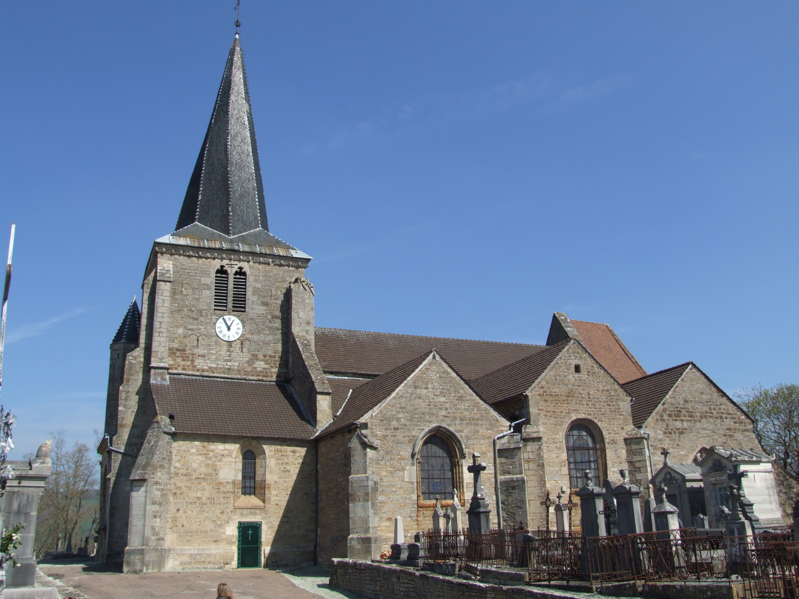 Saint-Germain church of Vitteaux, Vitteaux, Burgundy, FRANCE